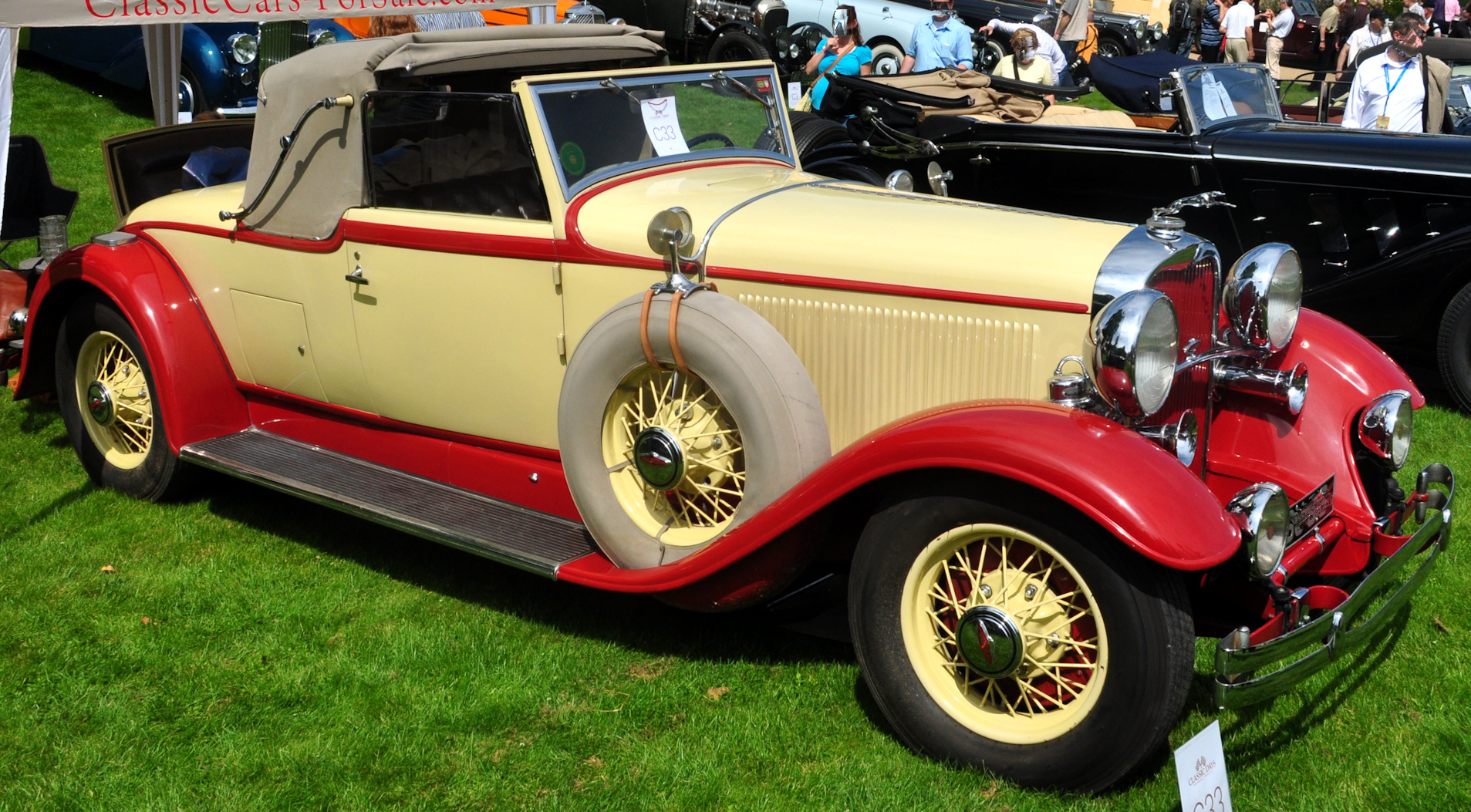 Lincoln Modell K at the Schloß Dyck - Classic Days 2011